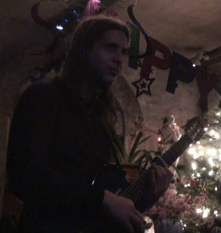 Rob Mastrianni playing a New Year's show at Ciao Stella with Beatbox Guitar.